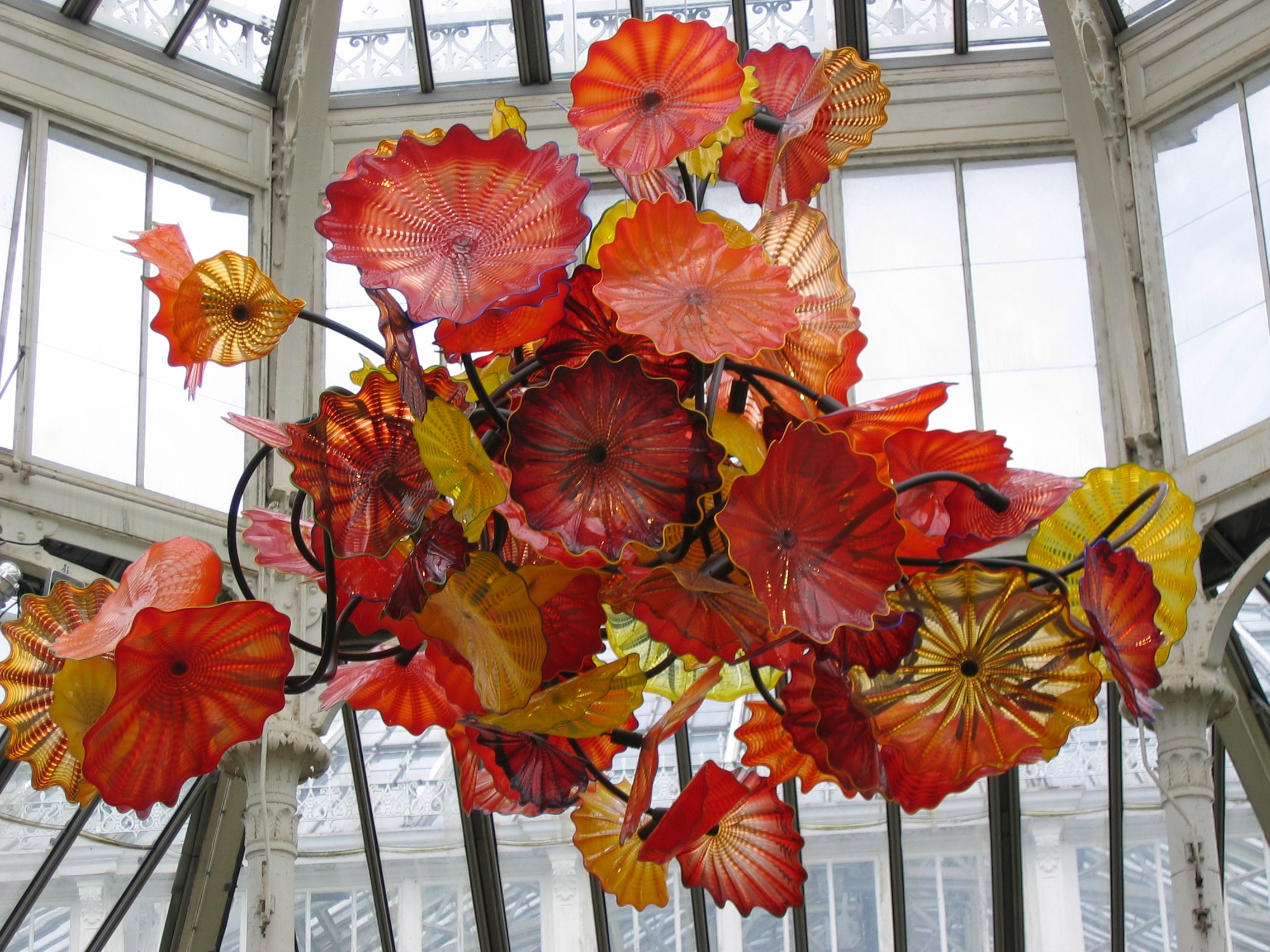 Glass art by Dale Chihuly at an extensive exhibition at Kew Gardens, London, in 2005.